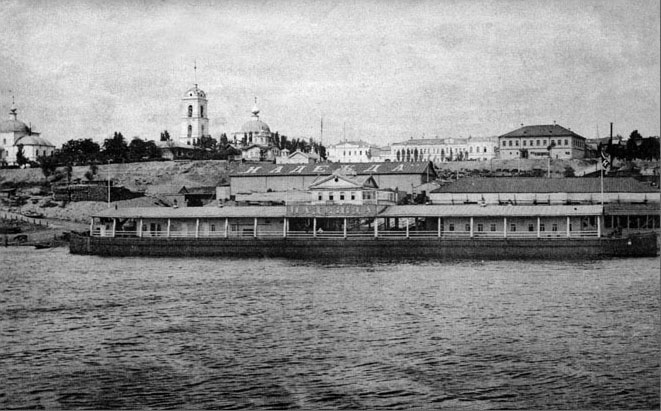 View of the Tsarist city of Tsaritsyn and its central embankment, from Volga river — the Russian Empire, 1903. In the renamed-present day city of Volgograd.